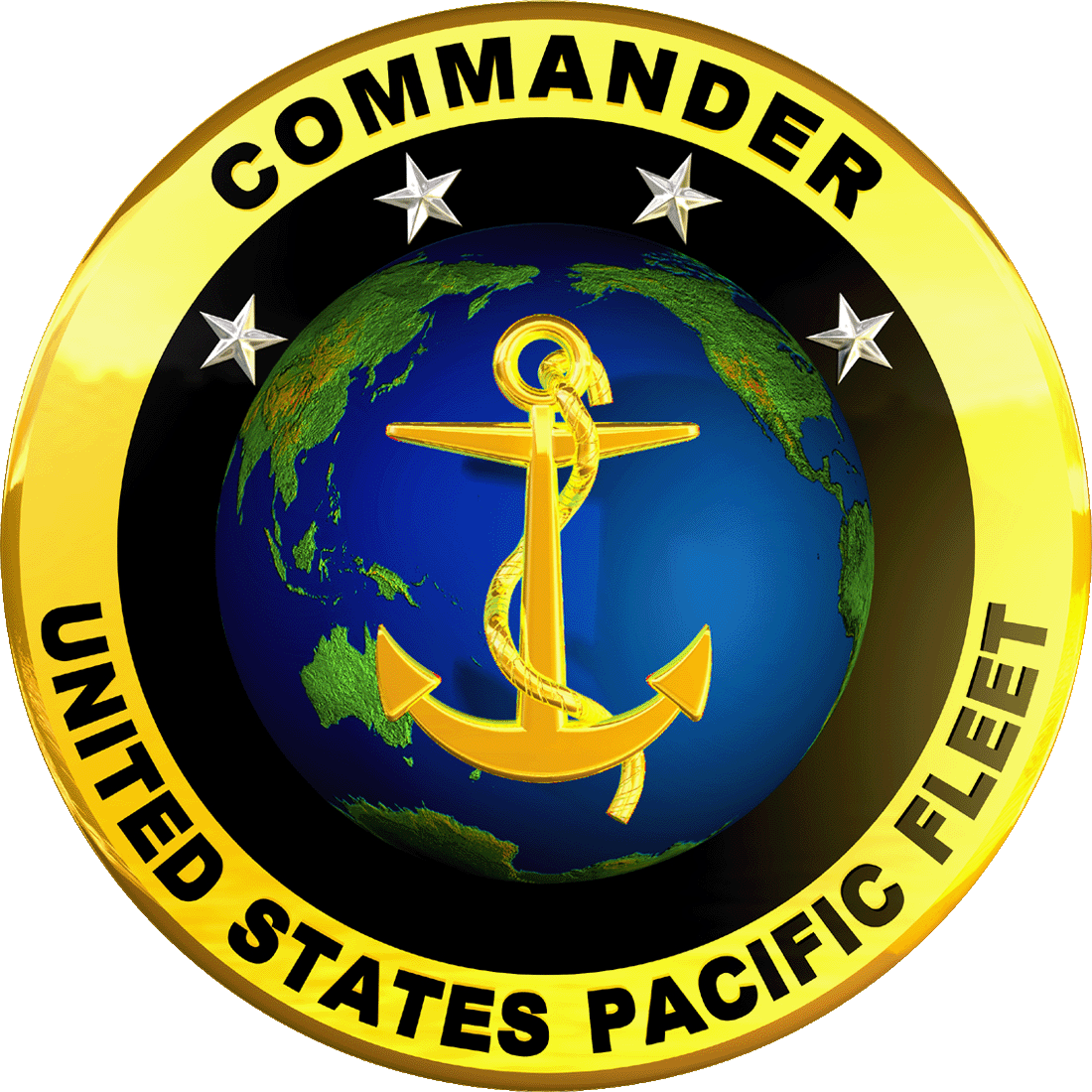 Logo of the commander, U.S. Pacific Fleet